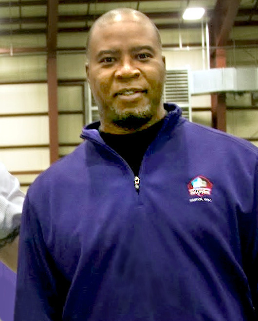 Minnesota Vikings DE Jared Allen and former DE/LB Chris Doleman at the end of a training session